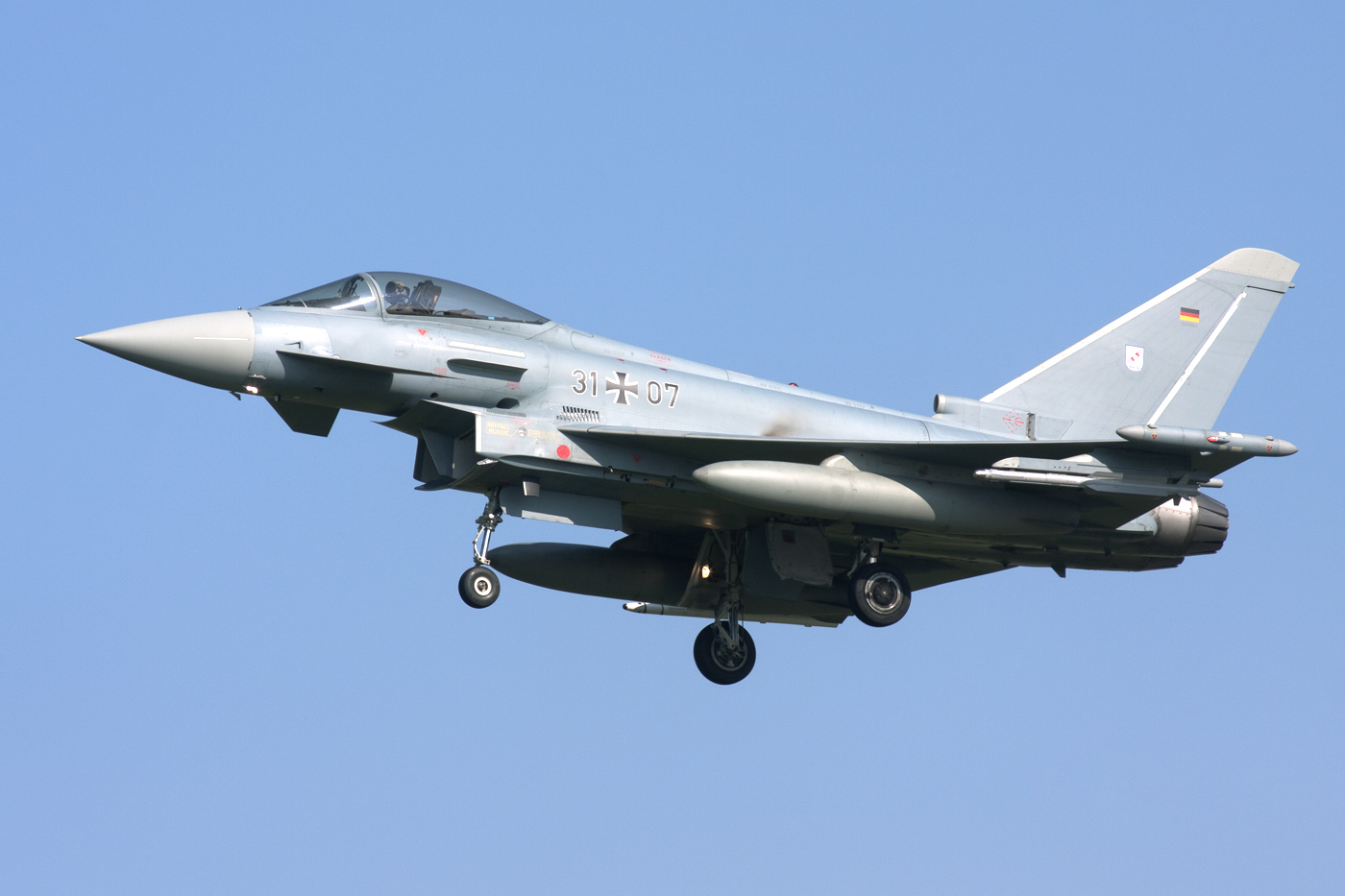 Leeuwarden (The Netherlands), 13 April 2016. One of ten German EF2000s that were participating in exercise Frisian Flag. They all came from TLG31 at Nörvenich. On this day eight of them flew.